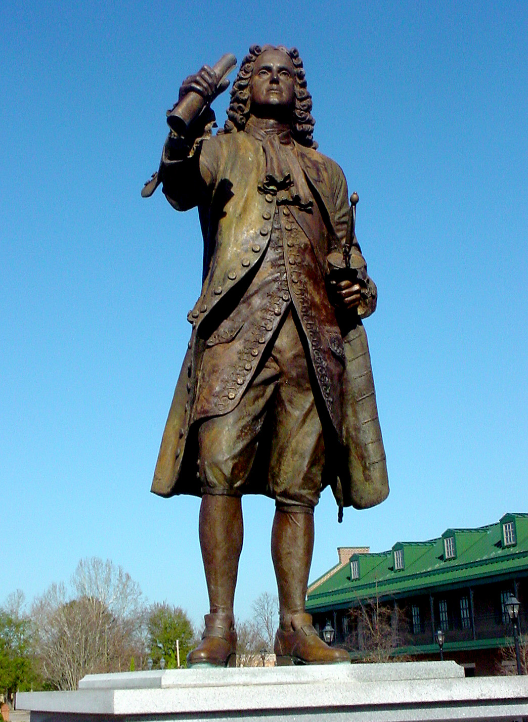 Statue of James Oglethorpe, founder of Augusta, Georgia and the British colony of Georgia, at the Augusta Common